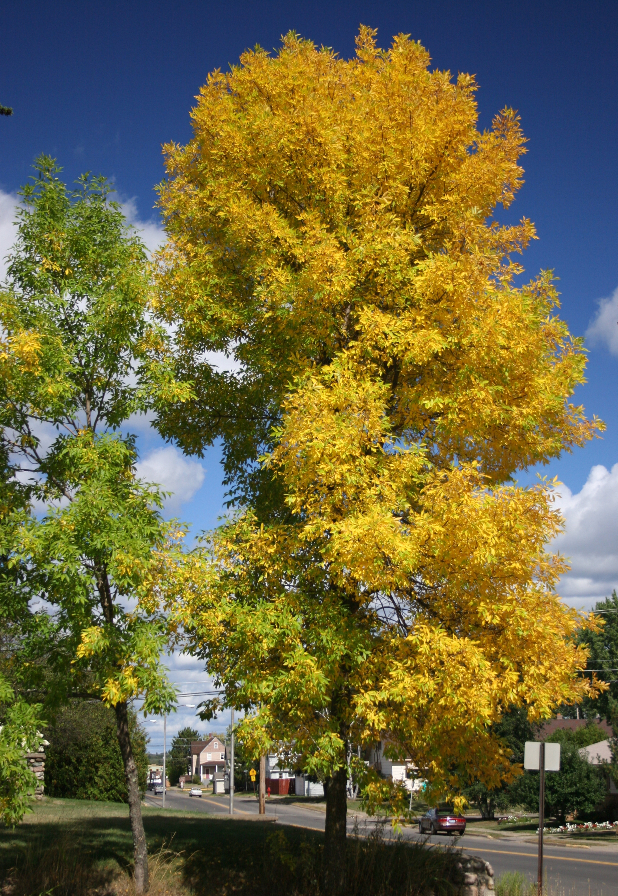 Fraxinus pennsylvanica tree in fall colors